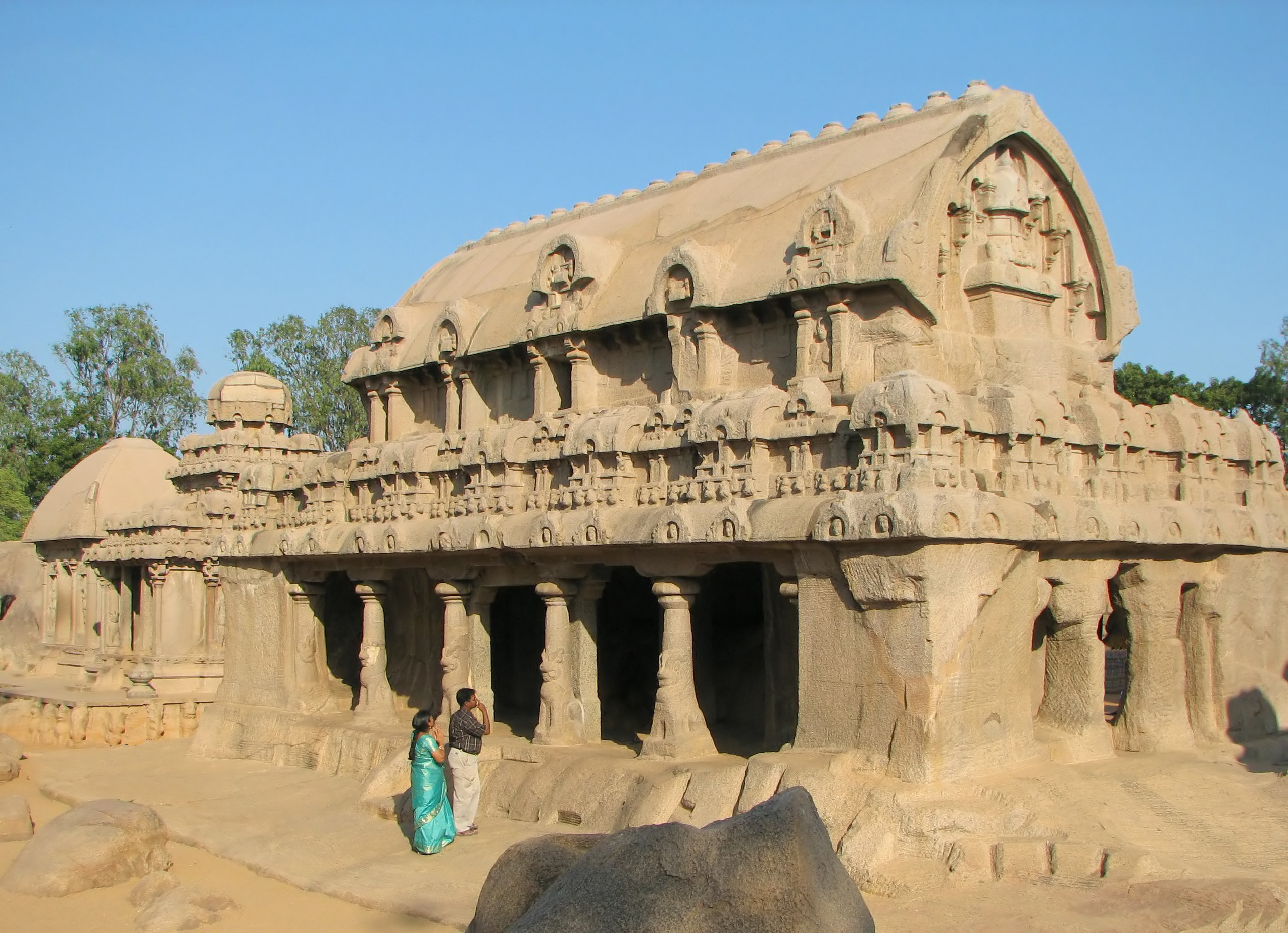 Bhima temple in Pancha Rathas site, Mahabalipuram, Tamil Nadu, India